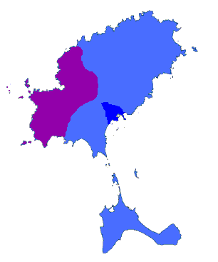 Ivicenc dialect.